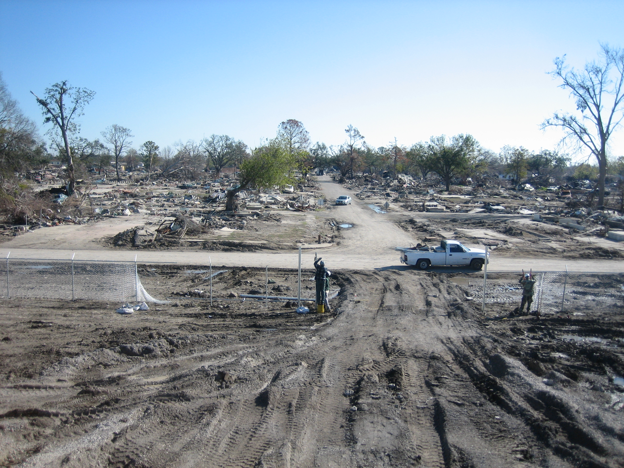 Taken by Craig Morris on Dec 22, 2006 on top of the levee overlooking the 9th Ward where the breach took place. The force of the wall of water razed all of these houses. As far as the eye can see here (roughly an area 4 blocks by 3), not a house was left standing. Inner (southern) of the two major breaches on the east side of the Industrial Canal levee into the Lower 9th Ward; probably the one through which the ING 4727 came in to the neighborhood, bulldozing buildings beneath it. -- Infrogmation 02:30, 4 May 2006 (UTC) Yes, frogman, that is where the barge came through - it was just to the right. CM, June 26, 2006